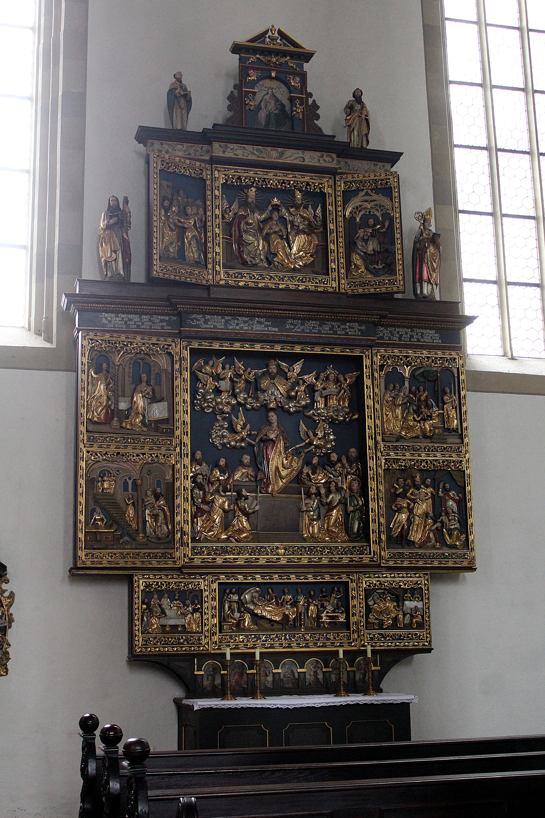 Würzburg, Saint Burchard church, side altar